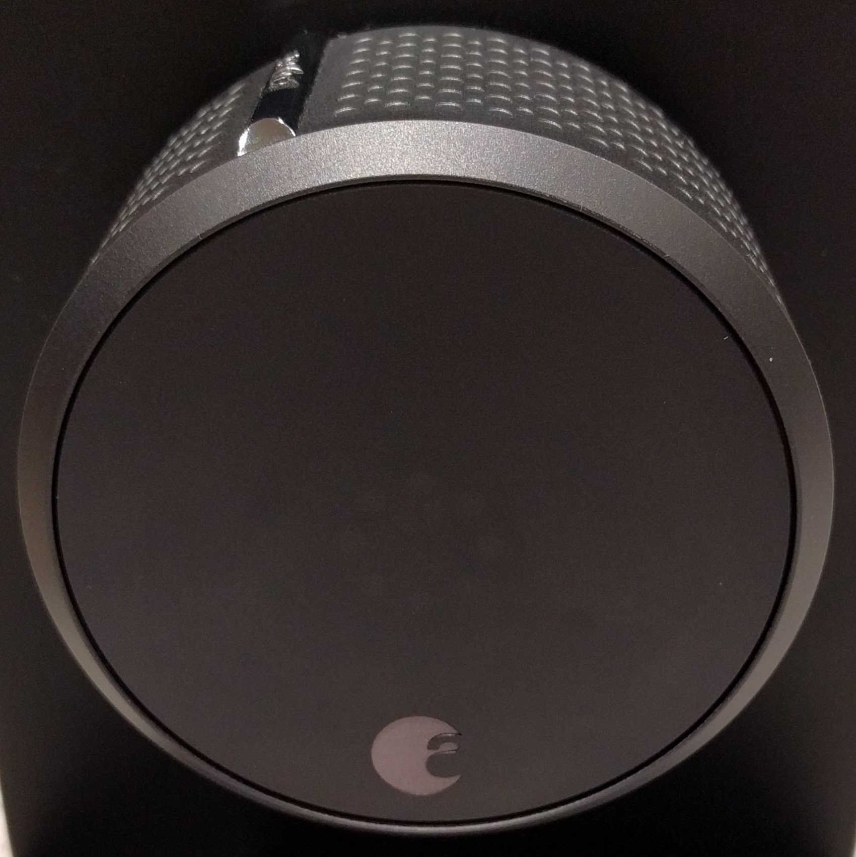 The second generation silver August smart lock, in an unlocked state.